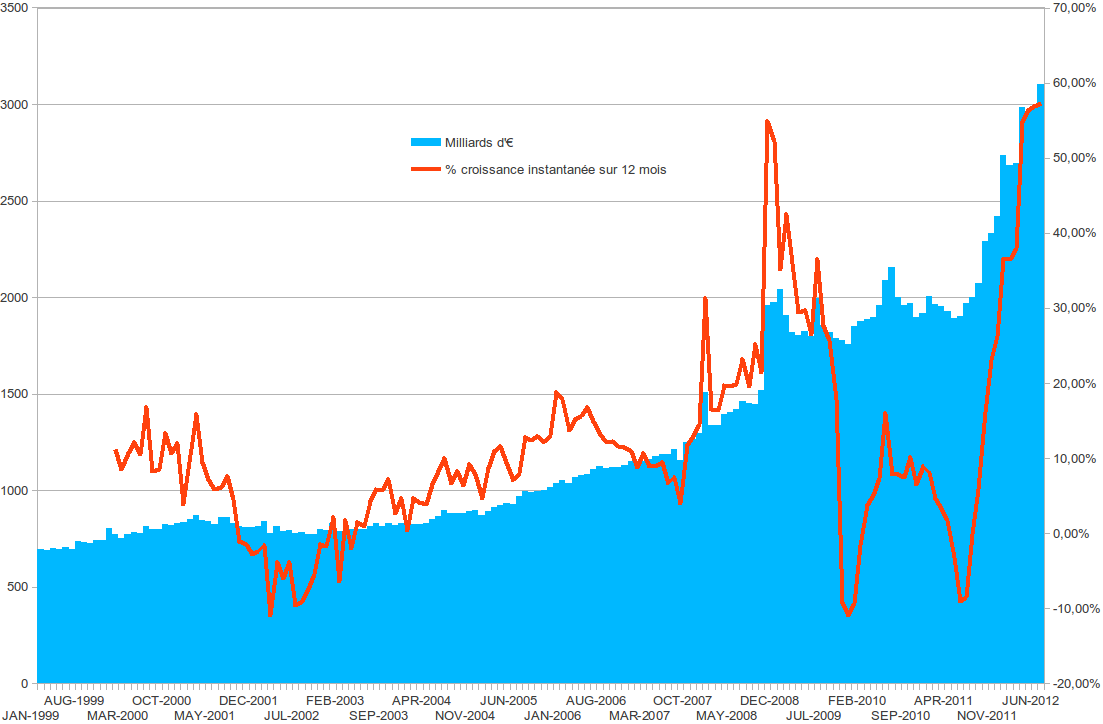 historical € monetary policy balance (ECB)